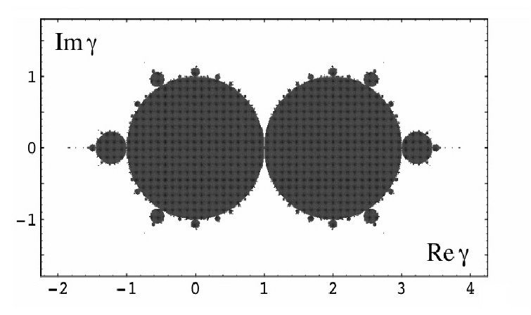 Mandelbrot set for Douady's rabbit in the gamma plane where gamma is the parameter of the complex logistic map z n + 1 = M z n = γ z n ( 1 − z n ) , {\displaystyle z_{n+1}={\mathcal {M z_{n}=\gamma z_{n}\left(1-z_{n}\right),}